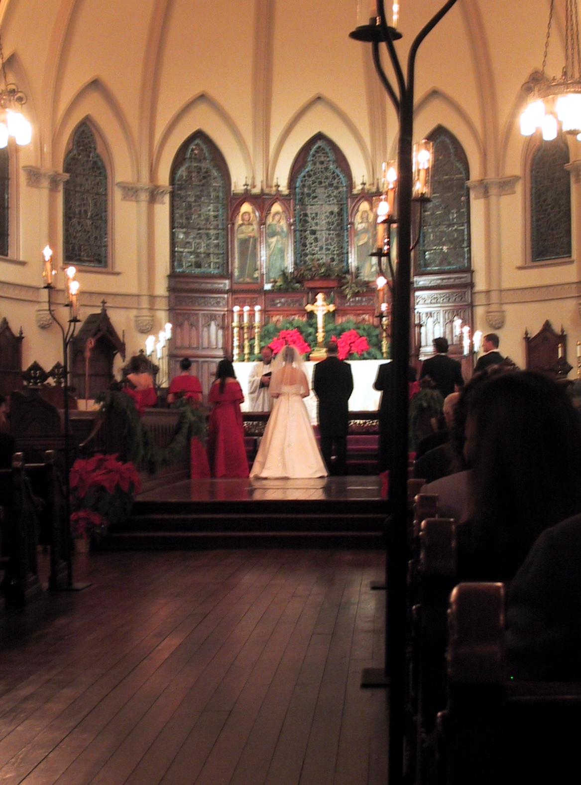 Wedding ceremony, Christ Church Cathedral, New Orleans.